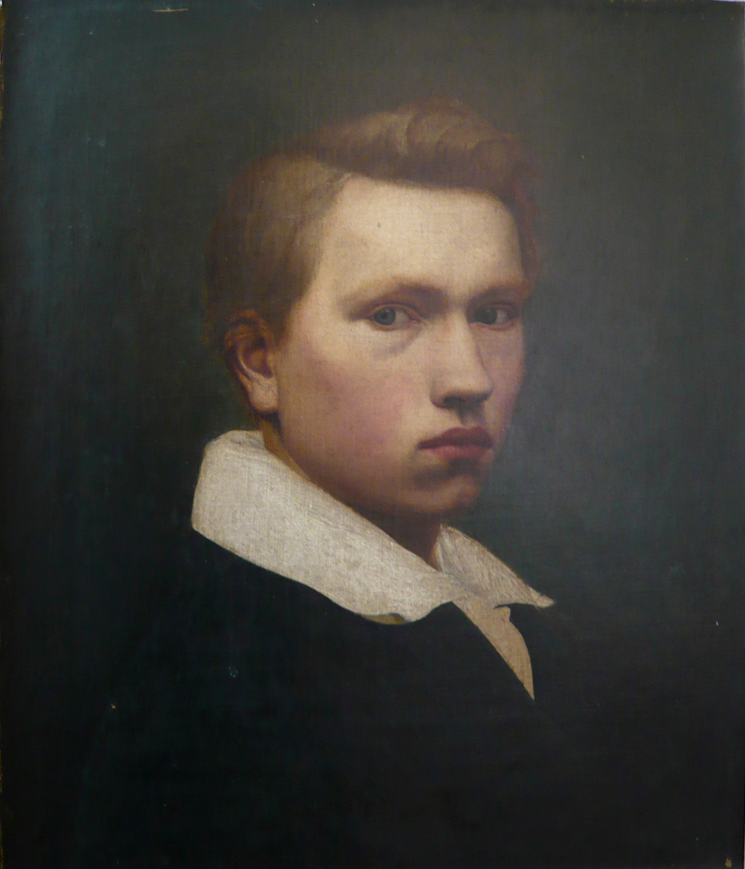 Karl Ferdinand Sohn; self-portrait (1821)